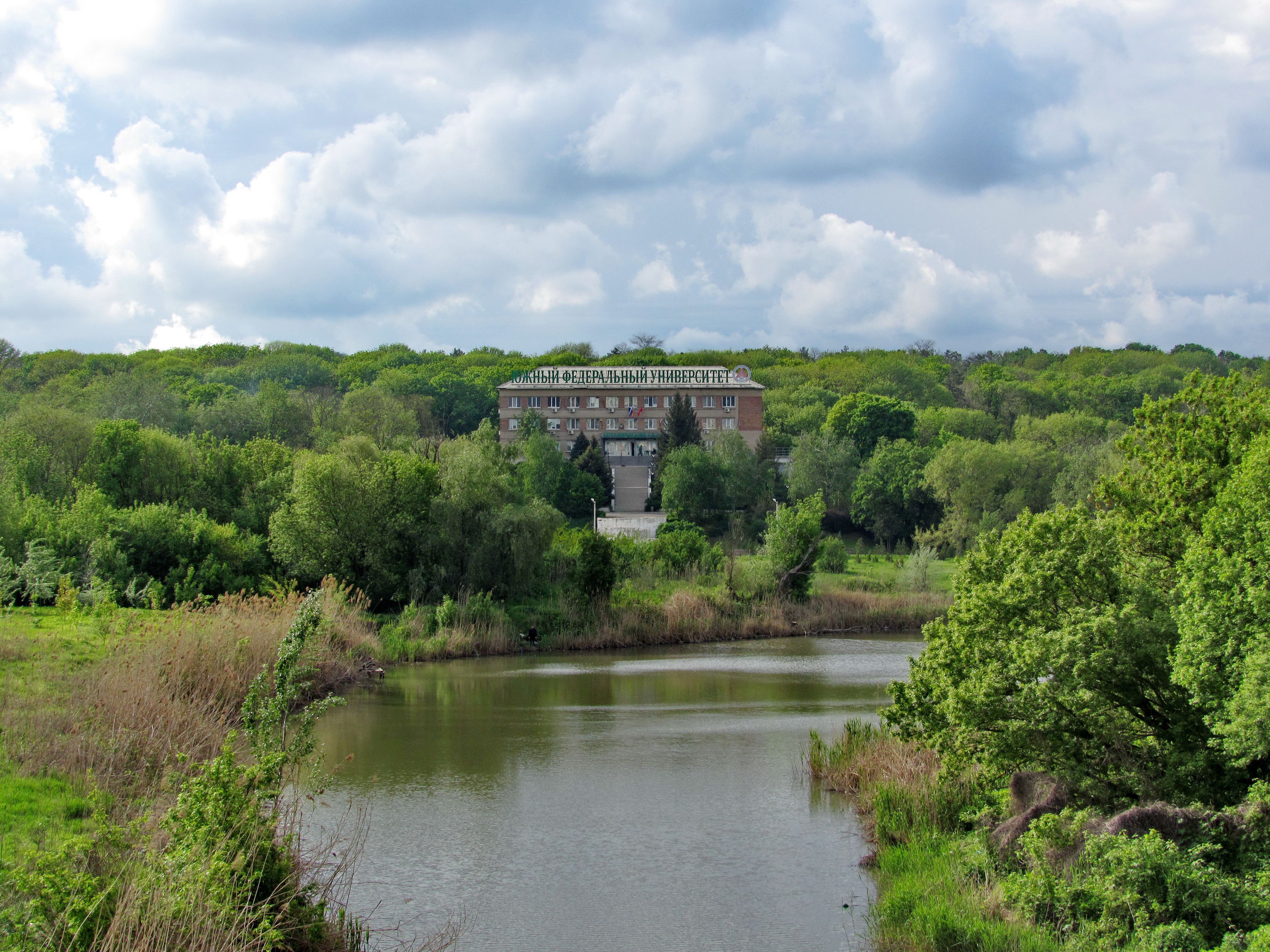 Botanical garden in Rostov-on-Don, Russia. This image is related to the protected area of Russia number 6110114